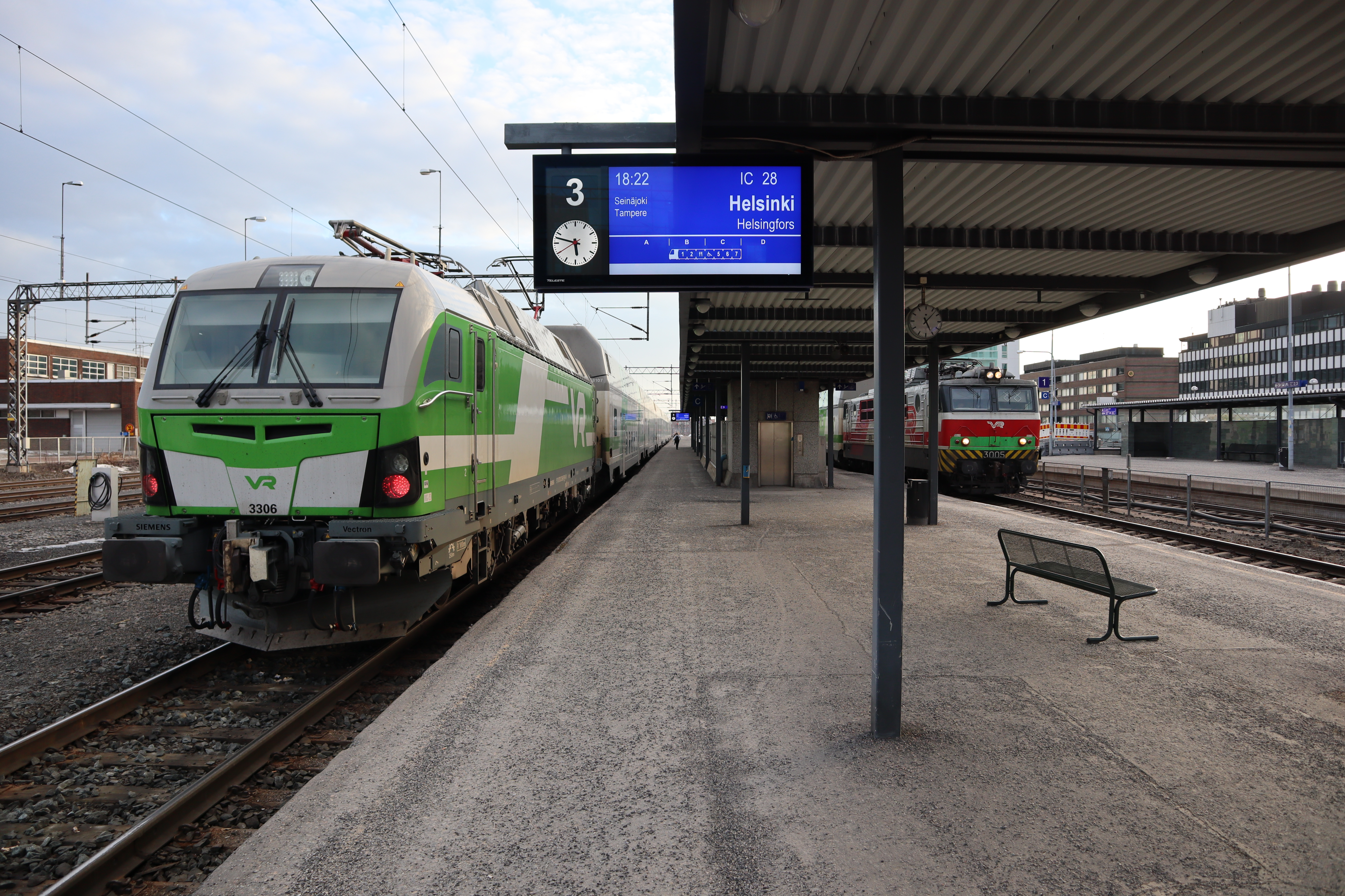 Oulu railway station on March 27th, 2020 at 17.49 local time. Platforms 2 and 3, southbound IC 28 to Helsinki with Sr3 3306 and northbound IC 413 to Rovaniemi with Sr1 3005, both waiting for departure.